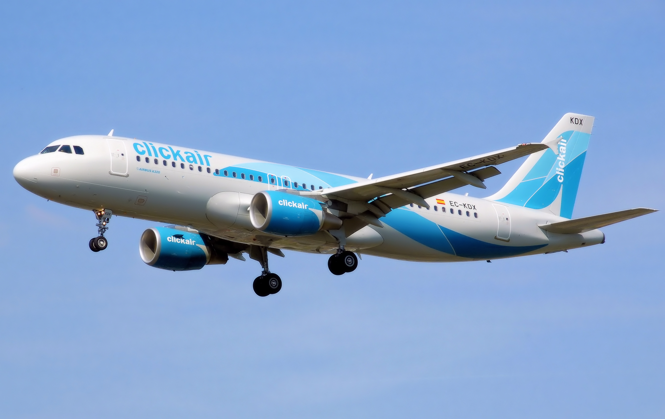 Clickair Airbus A320-200 (EC-KDX) landing at London Heathrow Airport.